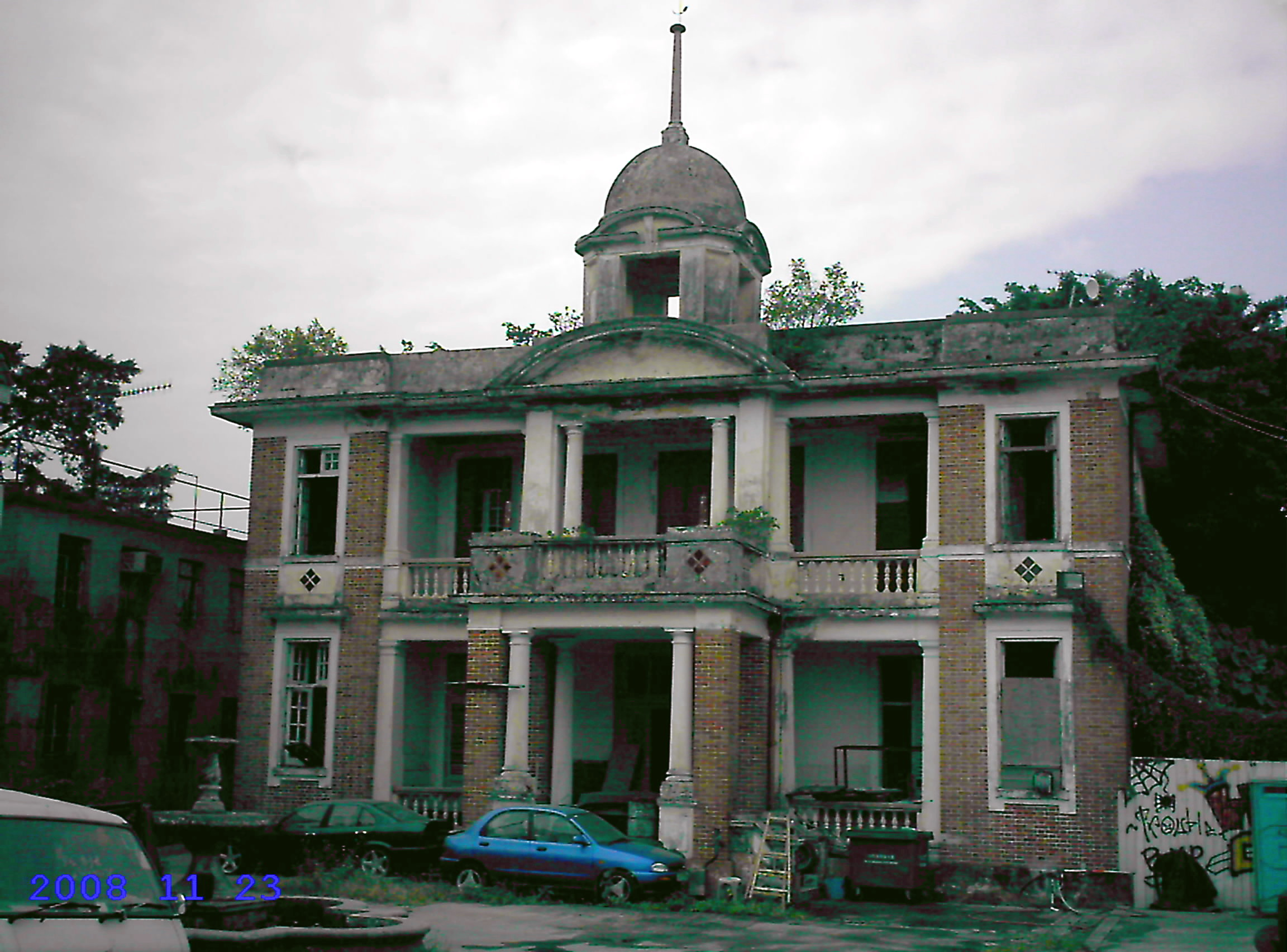 Main Building of Yu Yuen, Tung Tau Wai, Wang Chau, Yuen Long, New. Territories, Hong Kong 中文（香港）: 香港，新界，元朗，橫州，東頭圍村，娛苑 主樓正面